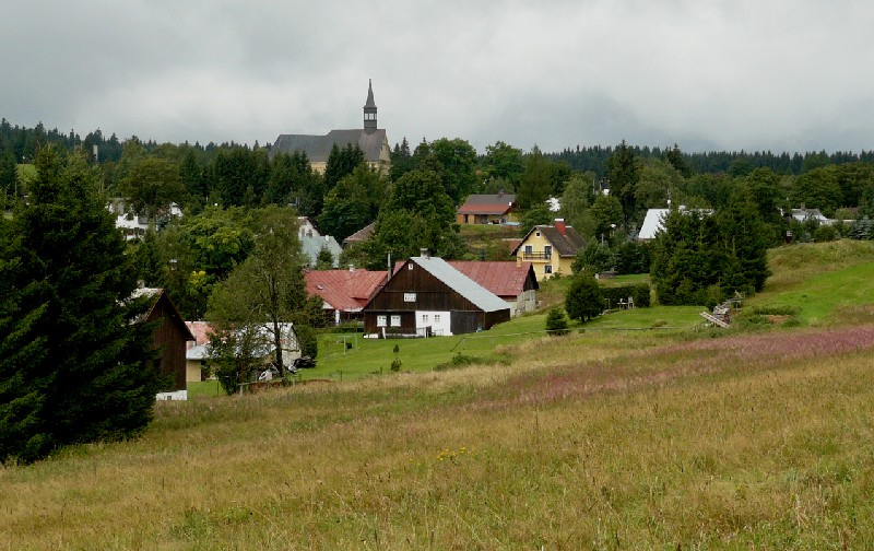 This photograph was taken within the scope of the second year of the 'Czech Municipalities Photographs' grant.